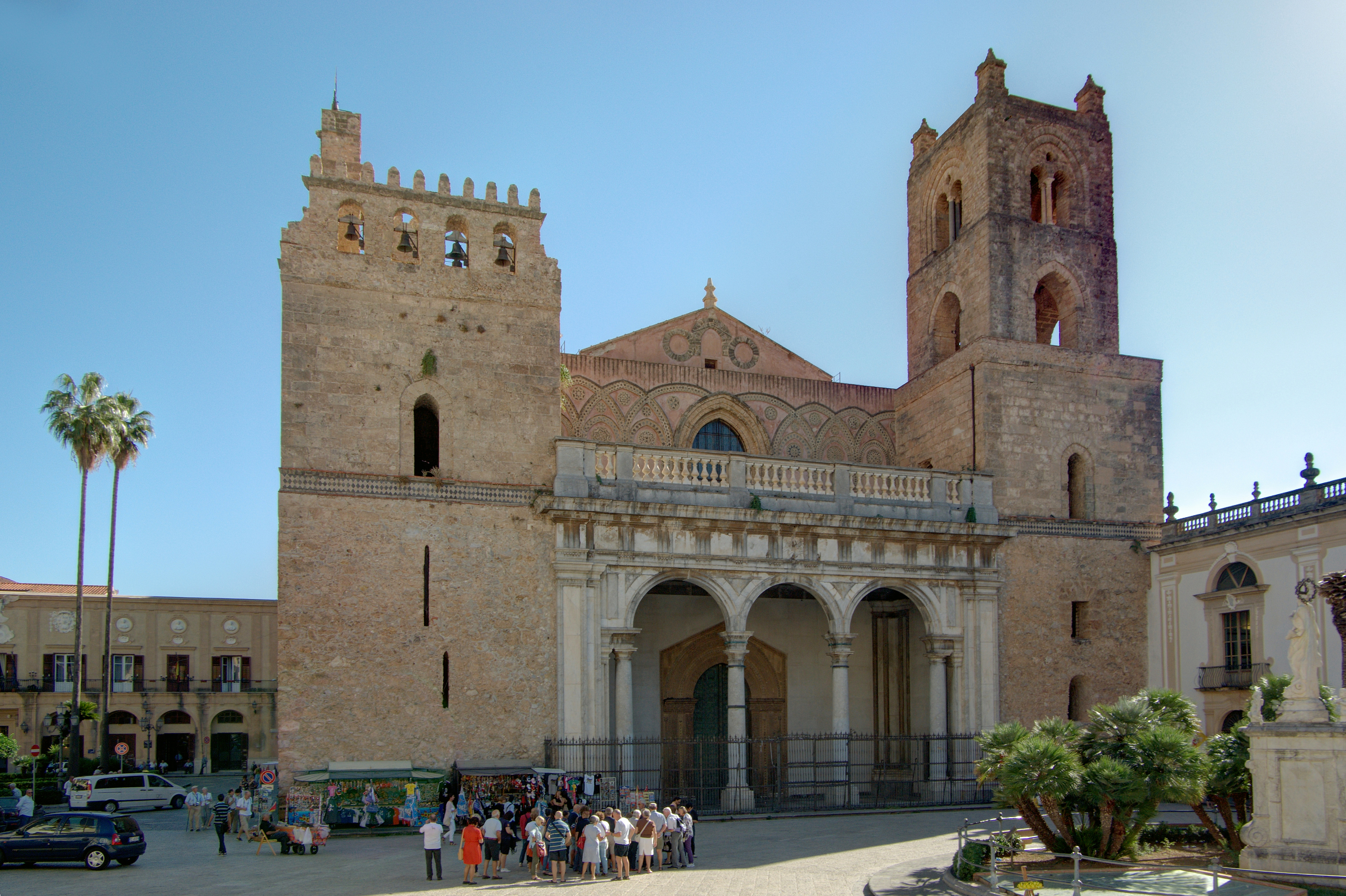 Italy, Sicily, Monreale, Cathedral